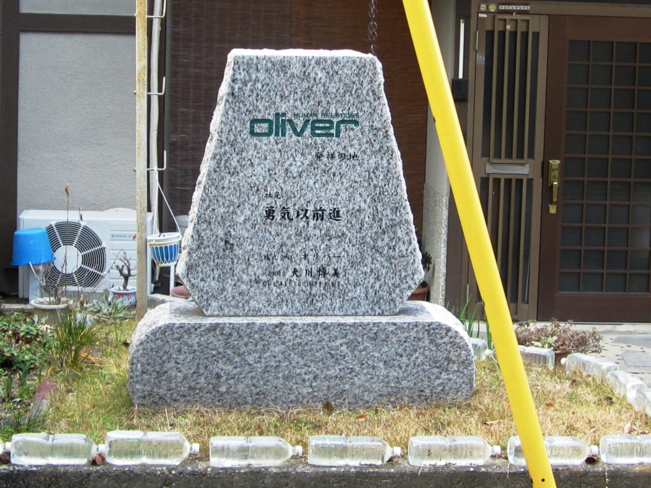 The place where Oliver Corporation was established in Okazaki,Aichi.